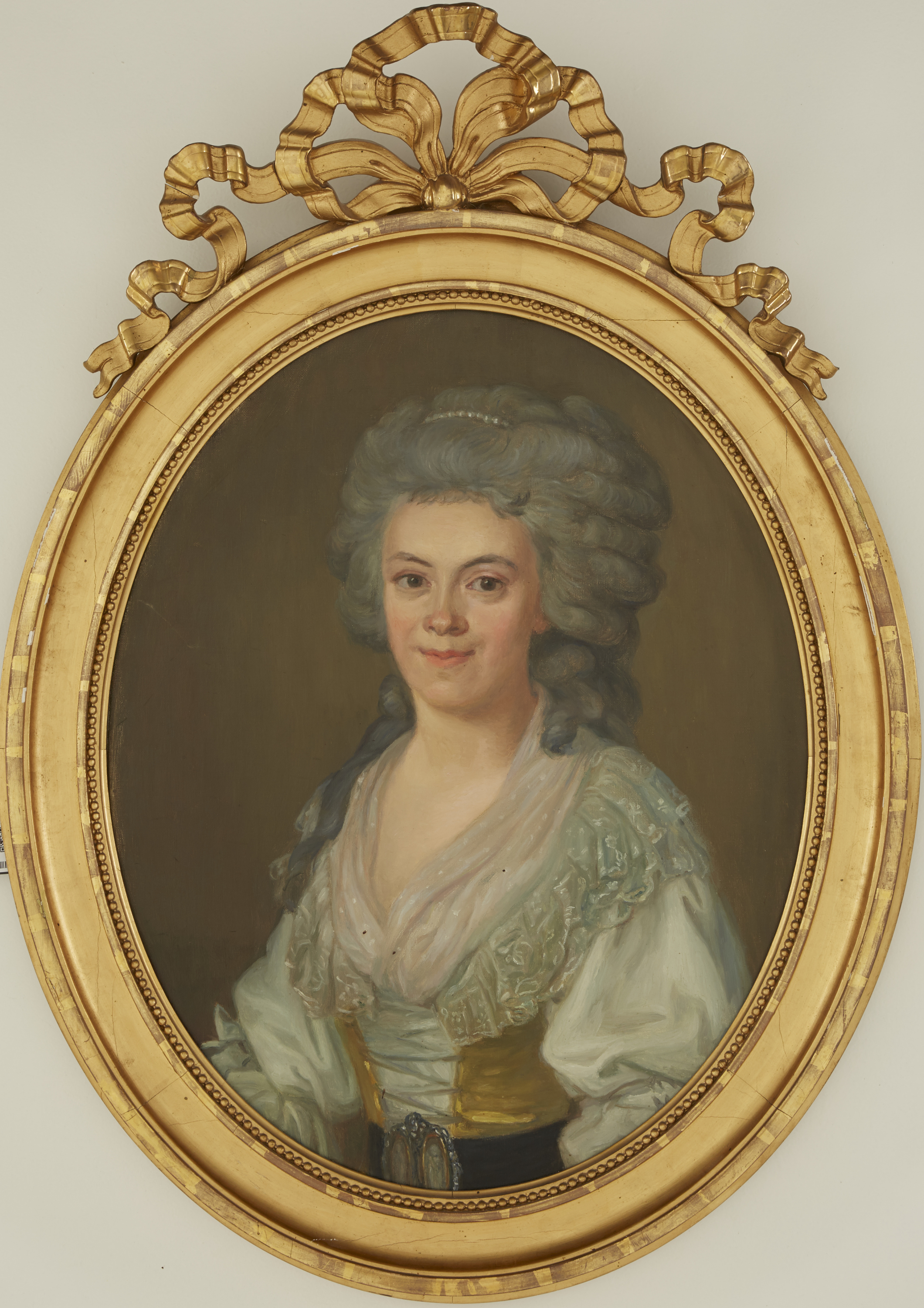 Beata Eliabeth Hamilton, b. Von Essen (1761-1818), signed and dated Hedvig Hamilton in 1931